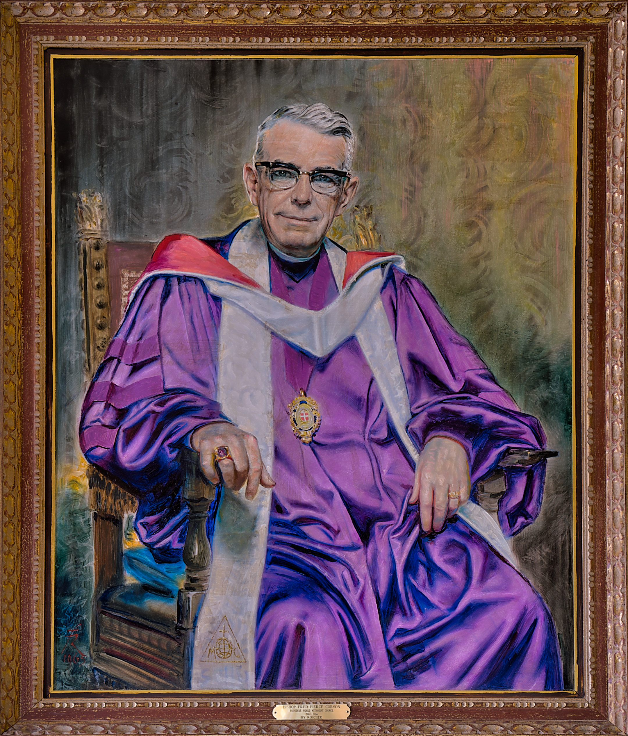 Bishop Fred Pierce Corson (1896 - 1985); President, World Methodist Council, 1961 - 1966